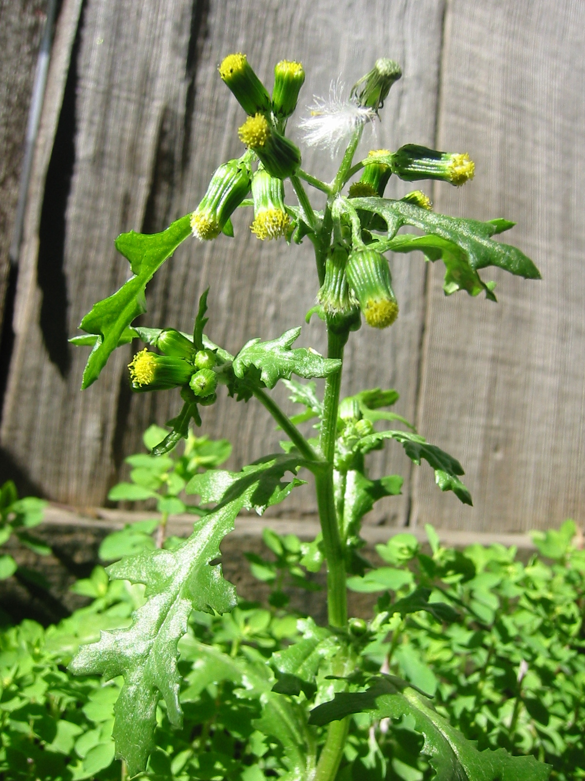 Senecio vulgaris blossoms, Mountain View, CA. Common Groundsel in the sunlight